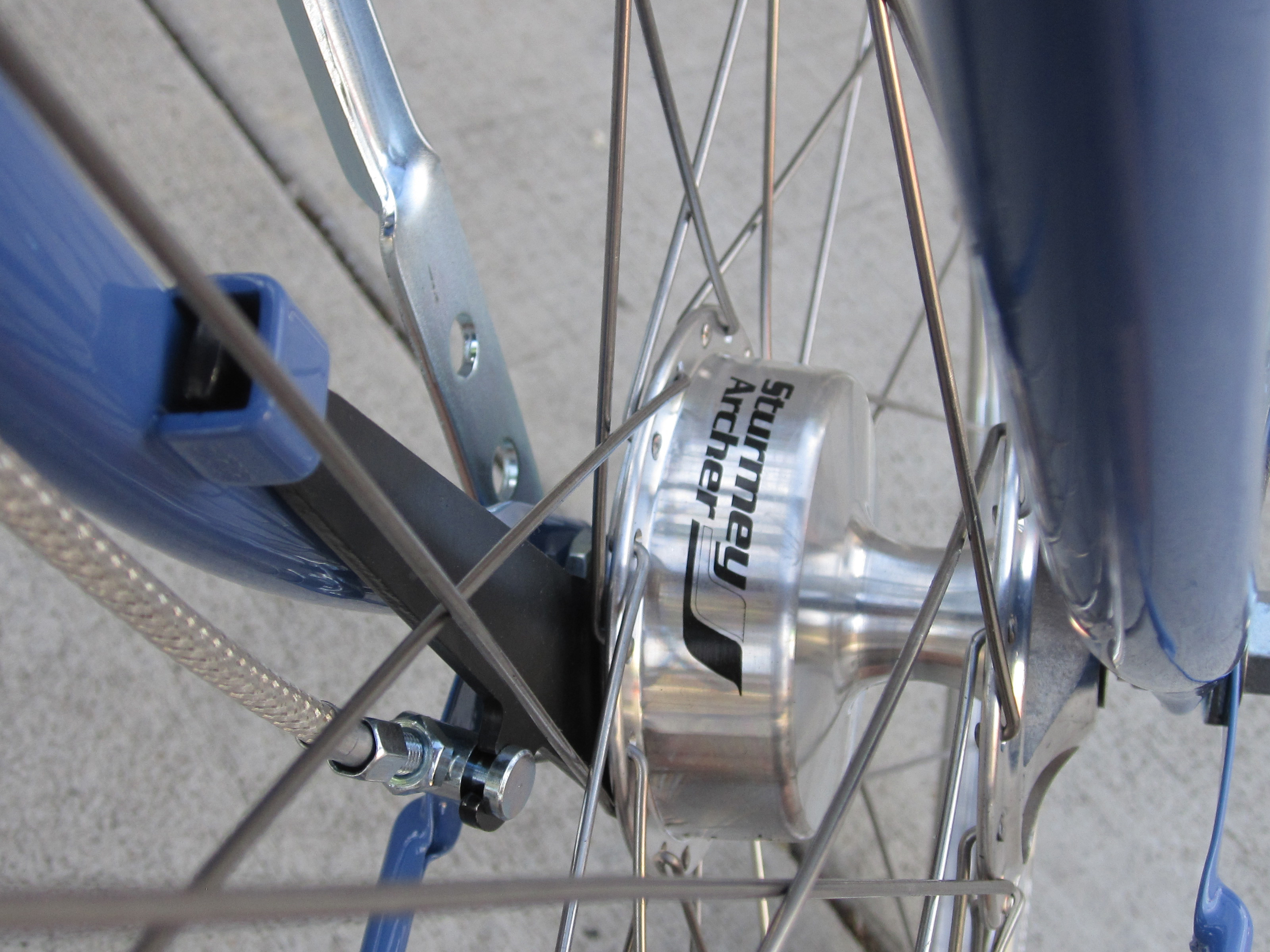 Pashley Poppy drum brake close up